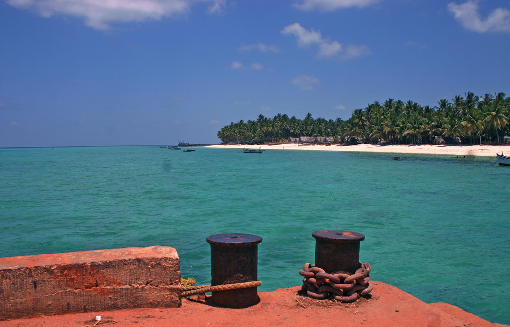 Agatti island, Lakshadweep